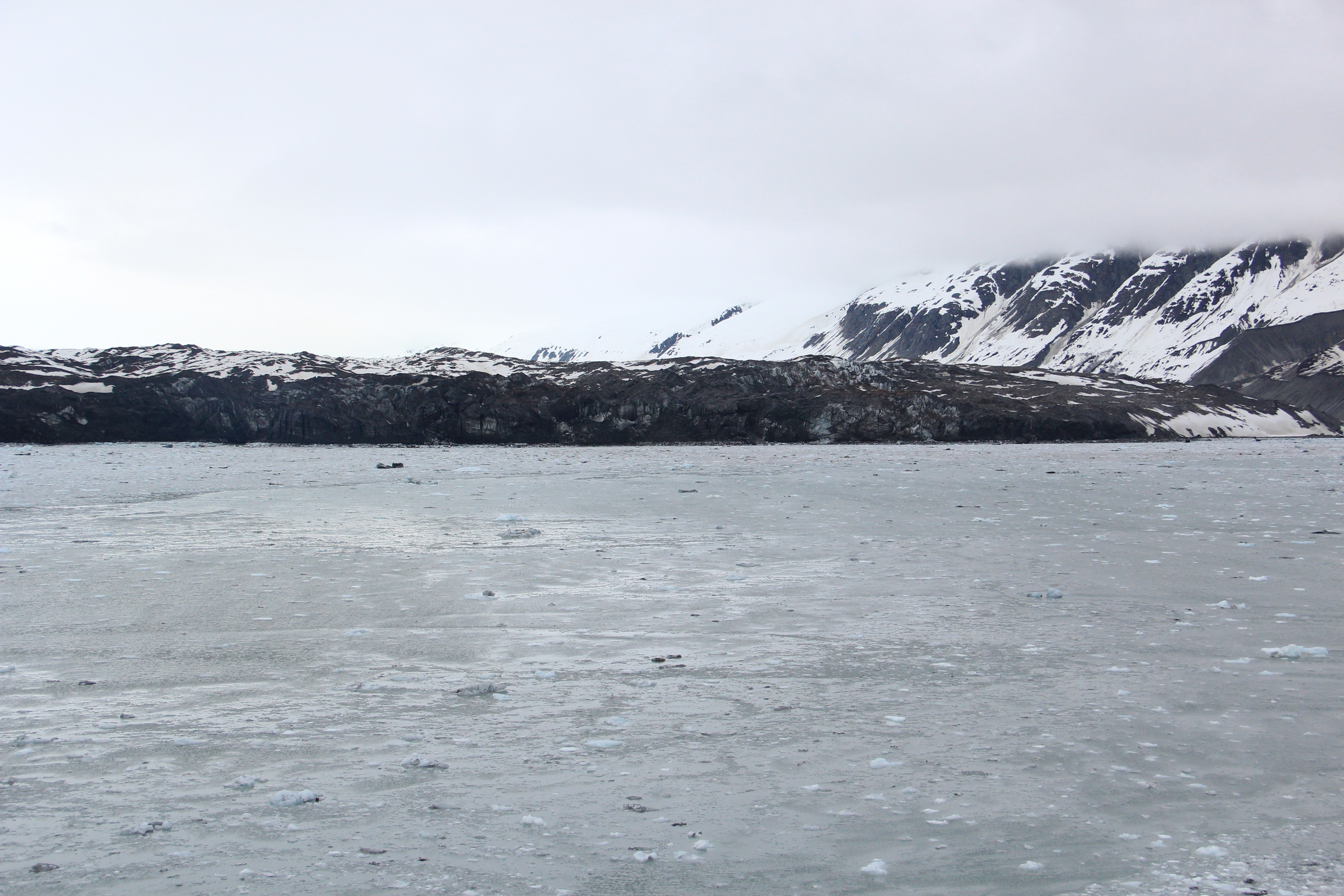 Grand Pacific Glacier in 2013